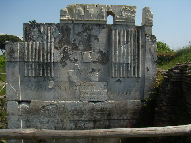 Sepolcro di Cartilio Poplicola, Ostia (IV,IX,2); tomb of Cartilius Poplicola